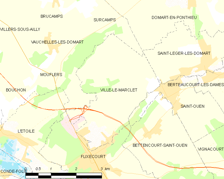 Map of French municipality Ville-le-Marclet